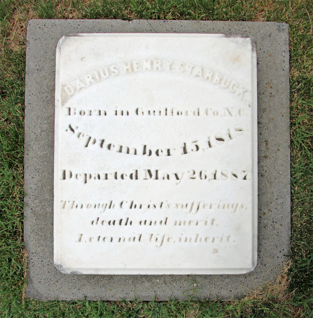 Gravestone Gravestone of North Carolina District Attorney D. H. Starbuck, buried in the Moravian God's acre in Winston-Salem, North Carolina.